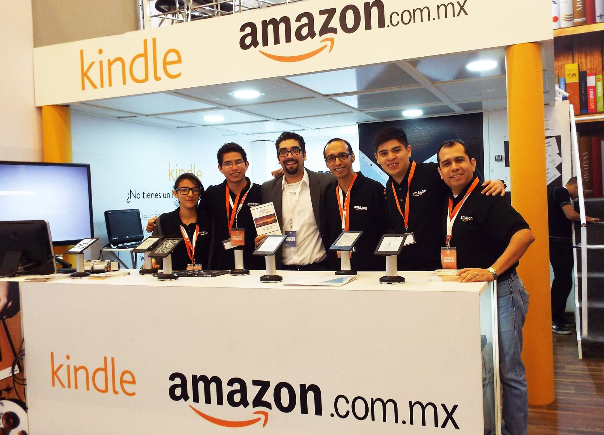 amazon kindle